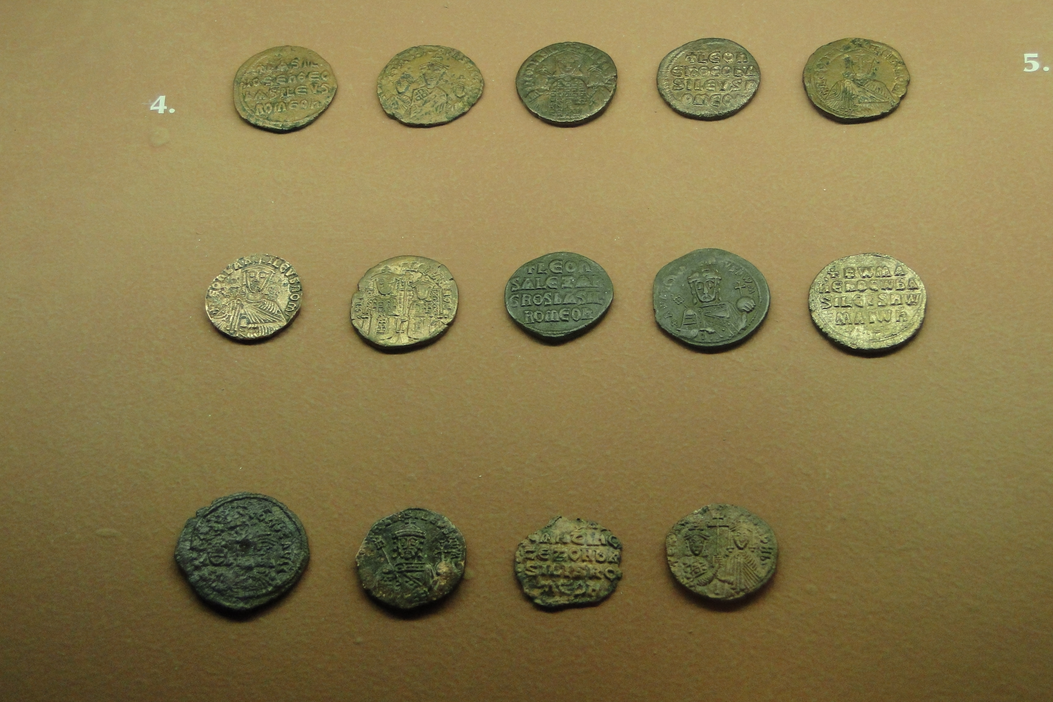 Coins of the Macedonian dynasty, Museum of Byzantine Culture.